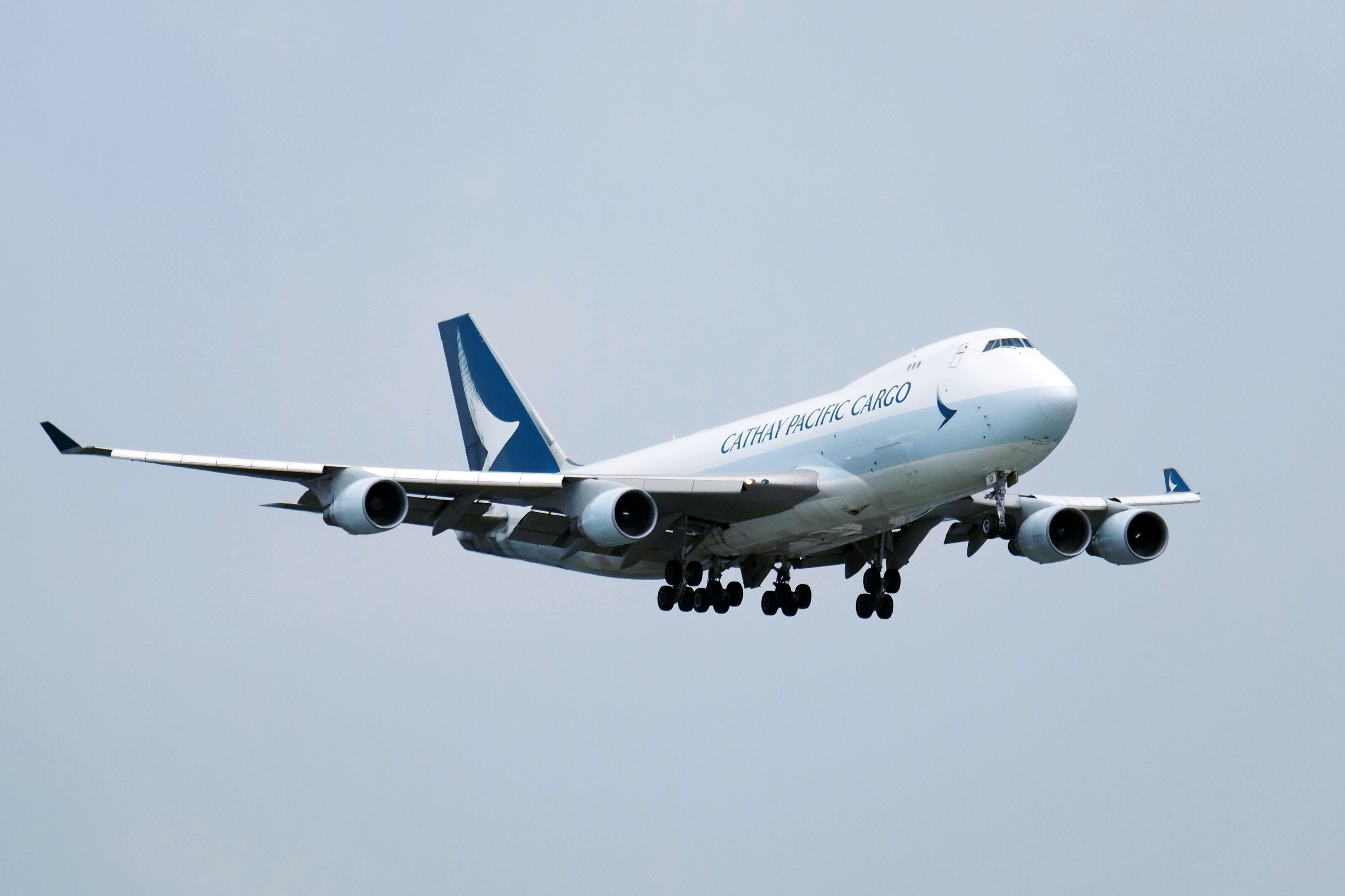 B-LID on CX51 PVG-CGO-HKG